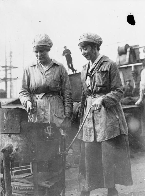 Shipbuilding during the First World War Female workers heat rivets in a portable furnace at the Harland and Wolff shipbuilding yard at Govan along the River Clyde in Scotland during the First World War.